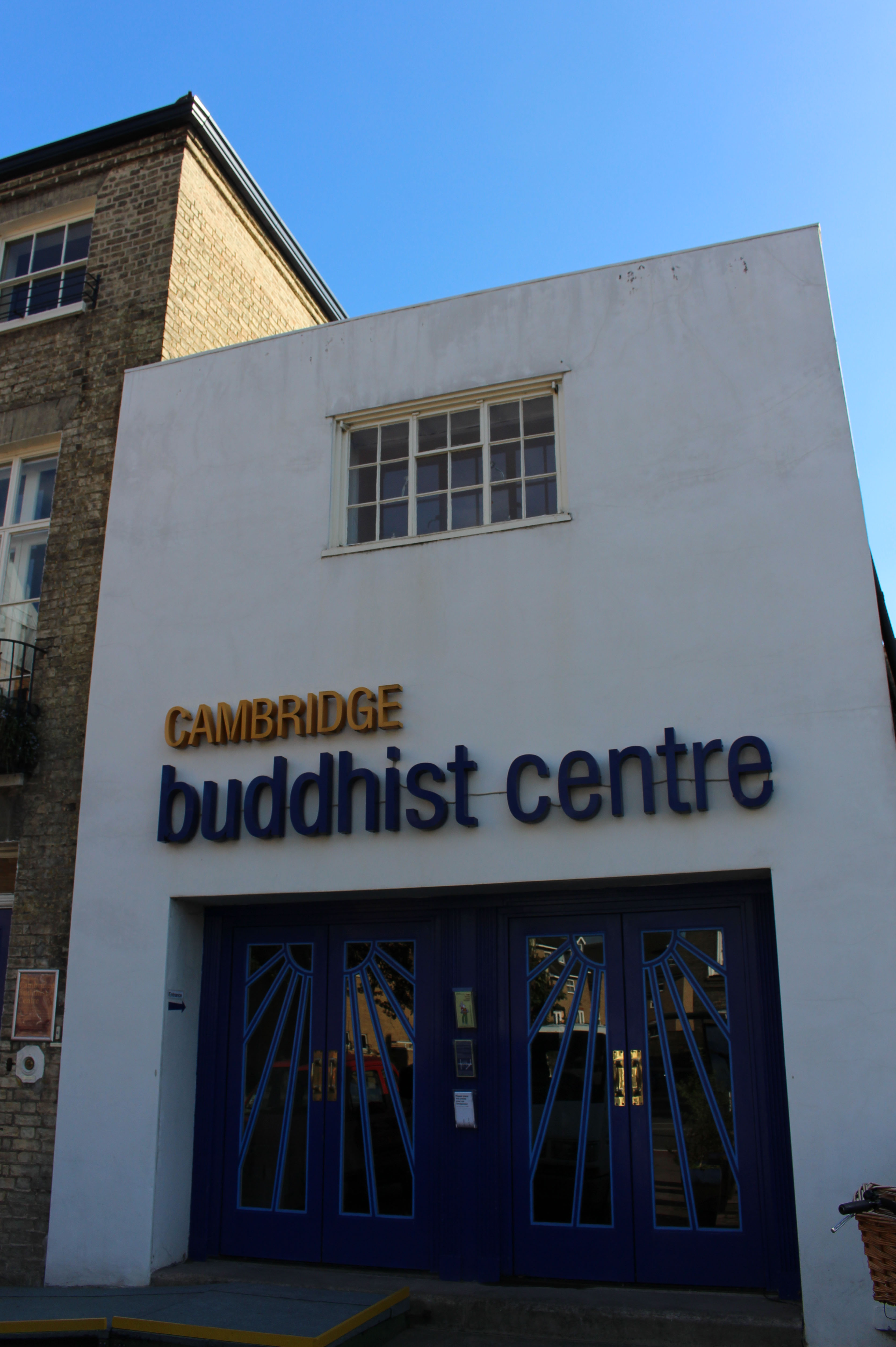 Cambridge Buddhist Centre, Newmarket Road